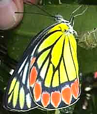 This snap is based on an image taken by Viren Vaz and uploaded in Wikipedia. Original is at Img has been enhanced. Permission given by Viren Vaz (User:VirenVaz on Wikipedia.)